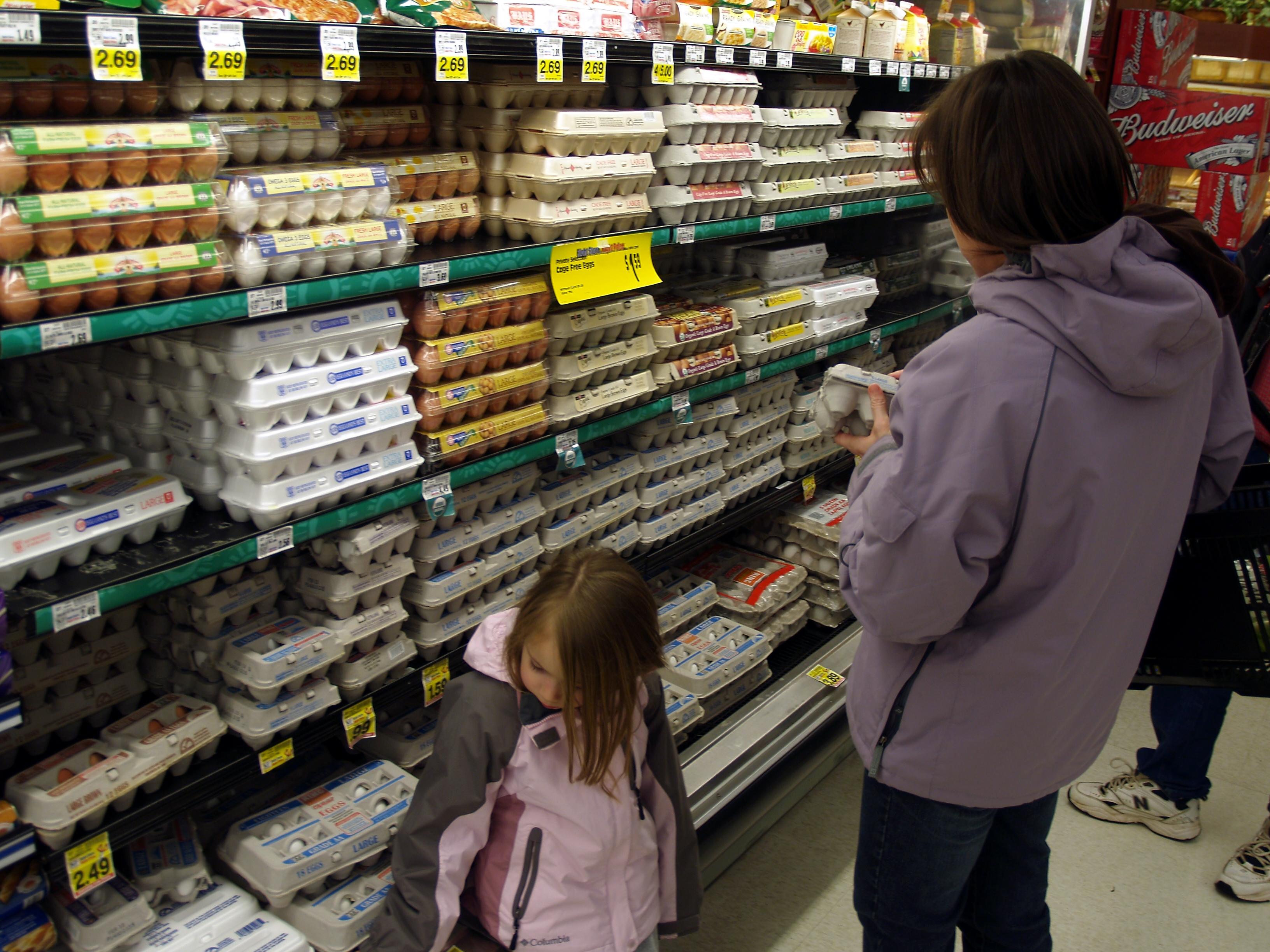 A young girl and her mother or complete stranger shop for chicken eggs at a City Market store in Breckenridge, Colorado.